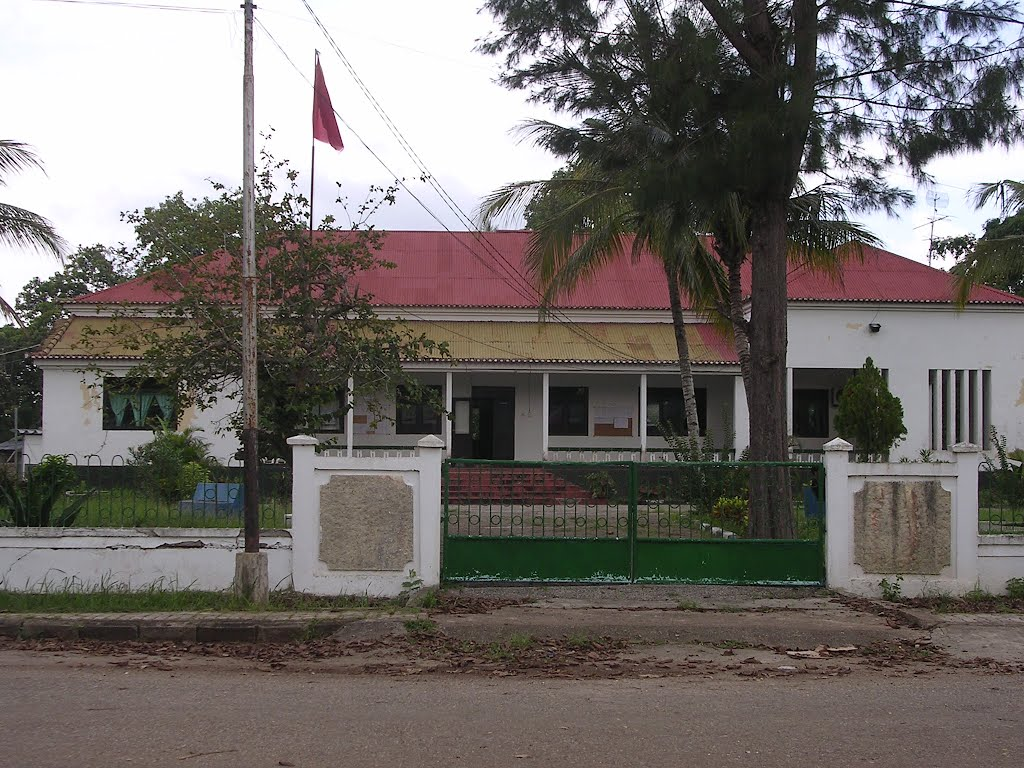 Main government building for District administrator at Lospalos, Lautem, Timor-Leste